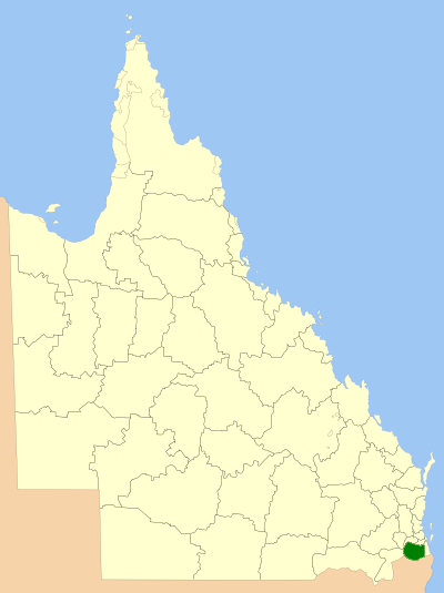 Location of the Local Government Area in Queensland